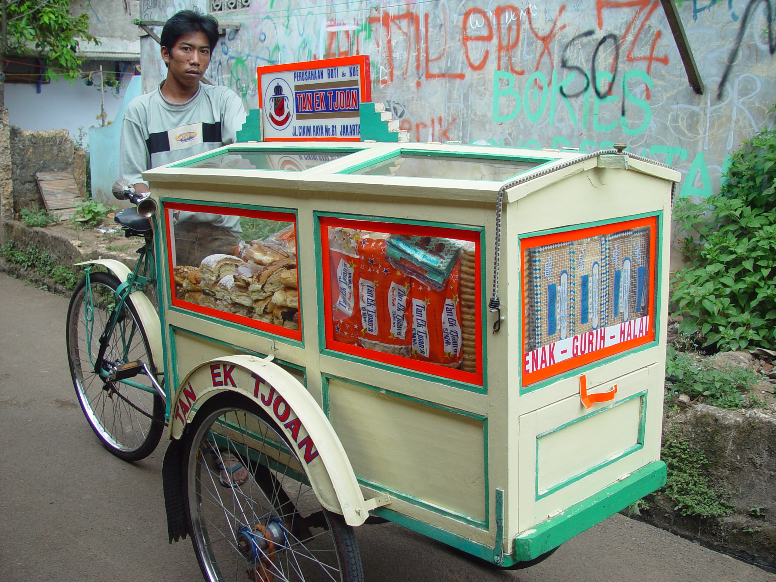 Bread vending bike cart (sepeda roti) in Jakarta Indonesia.